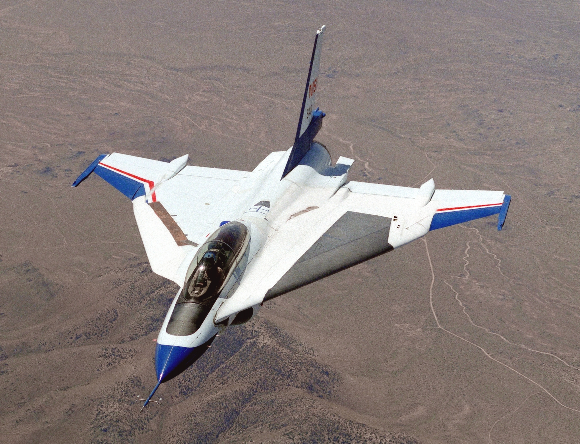 NASA Dryden Flight Research Center's modified F-16XL #2 conducted testing on laminar flow